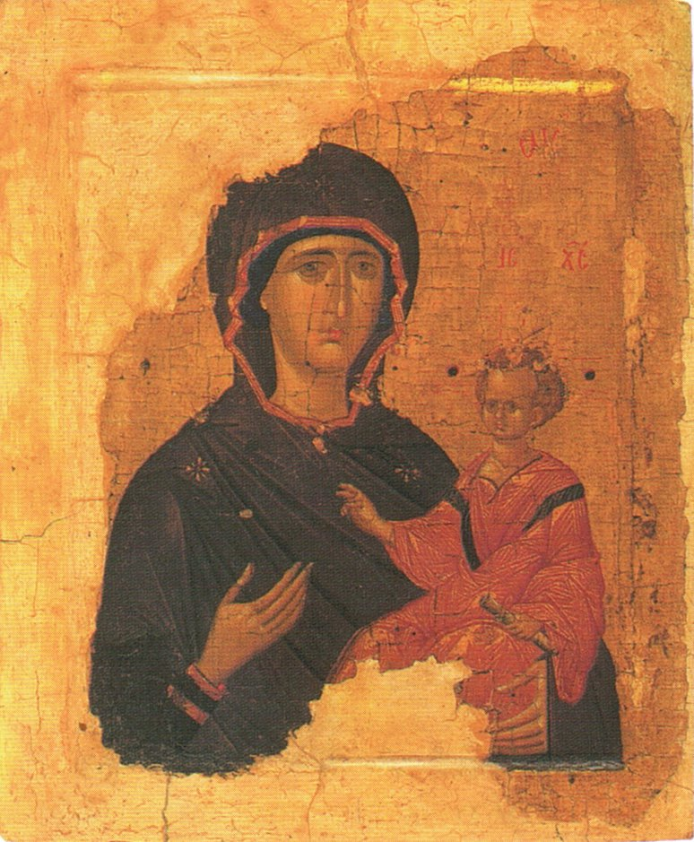 Hodegetria - Byzantine Empire - 15th_century